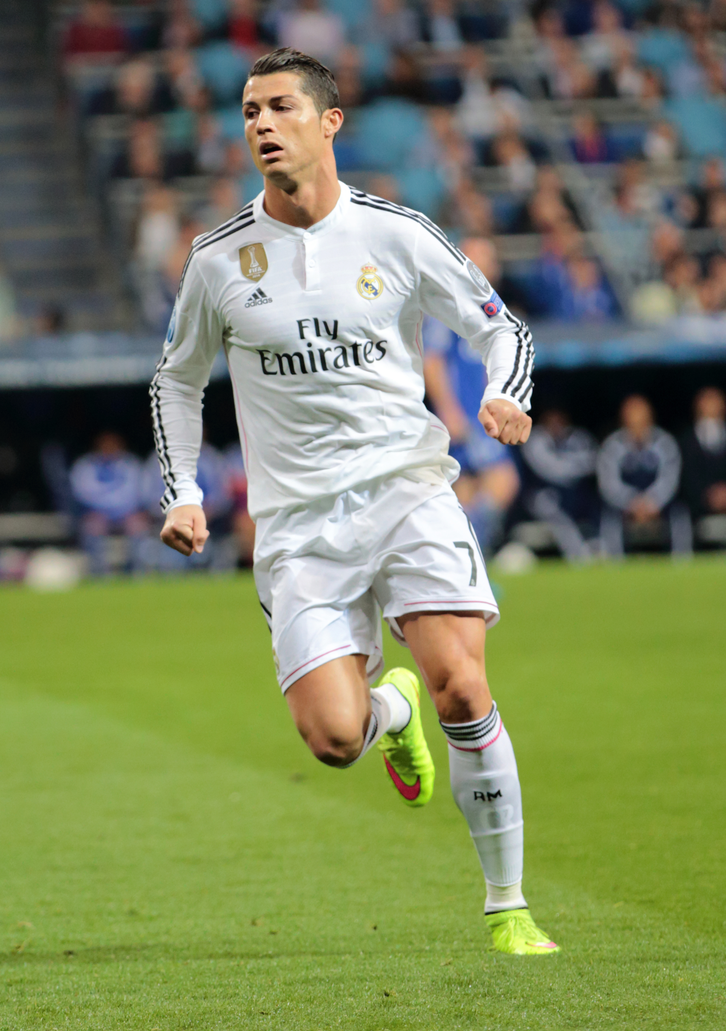 UEFA Champions league game, Real Madrid vs. FC Schalke at Estadio Santiago Bernabeu. Real Madrid lost 3-4 but advanced on a 5-4 aggregate.